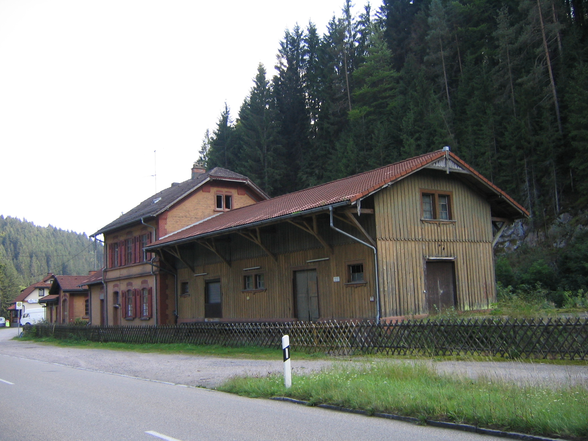 Former train station Kappel-Gutachbrücke near Titisee-Neustadt, Germany